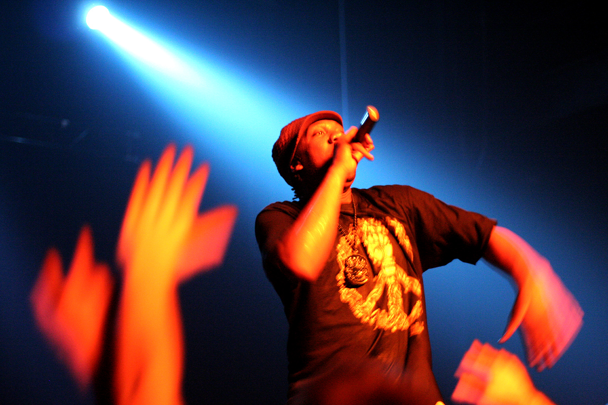 KRS-ONE performs.